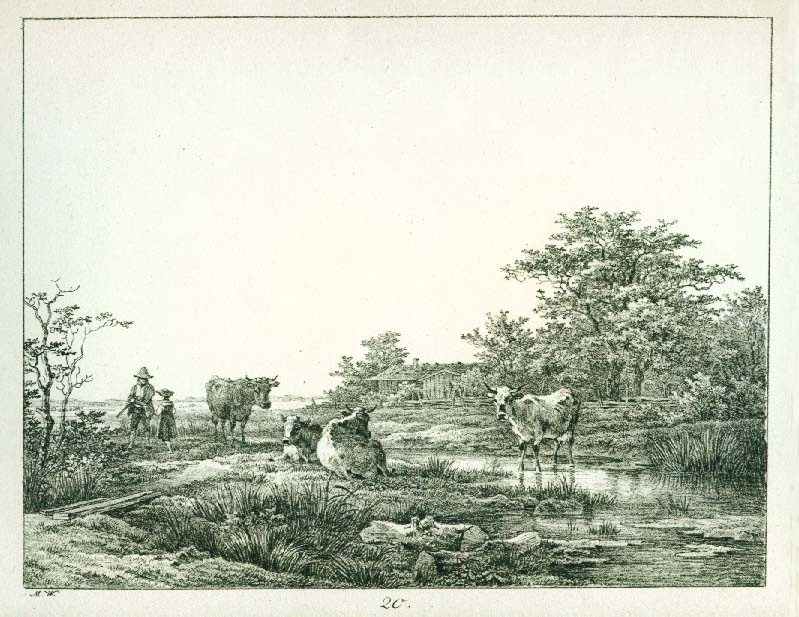 Lithograph